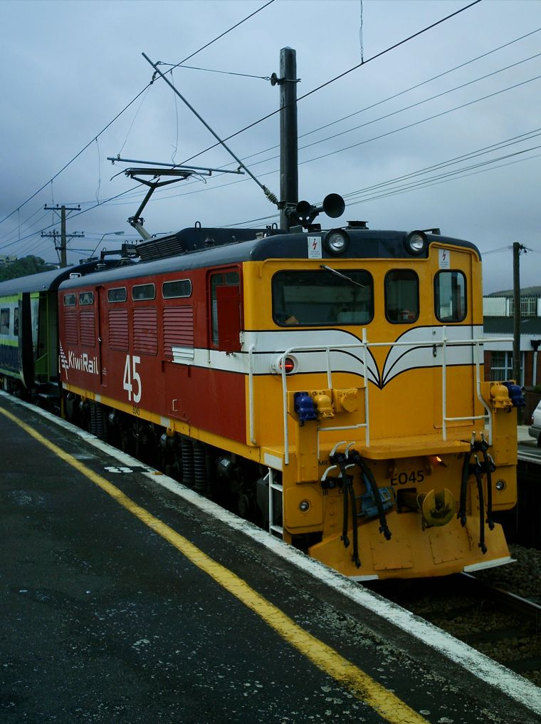 Photo of an NZR EA Class locomotive in Wellington, New Zealand